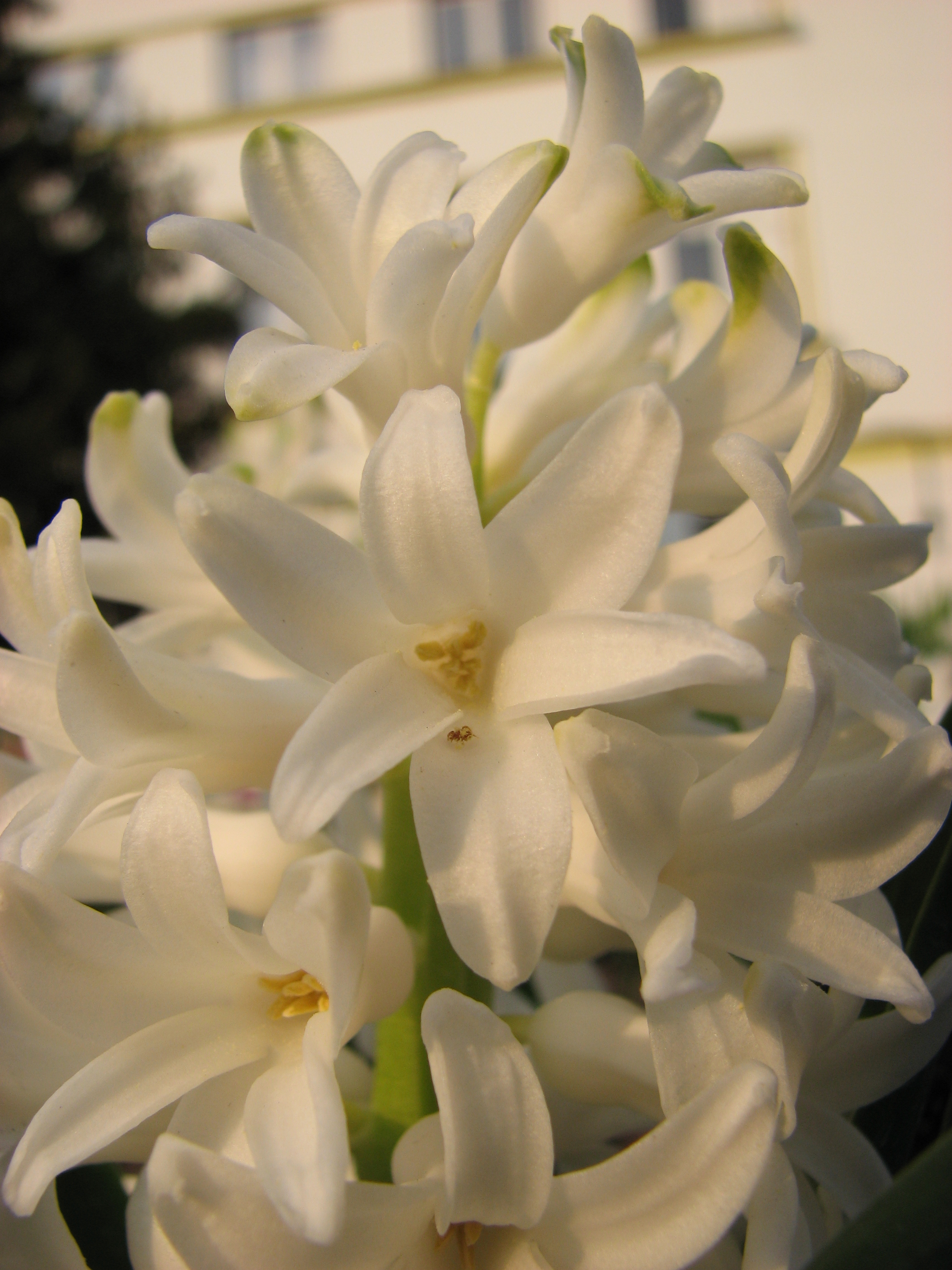 Hyacinthus orientalis in Cluj-Napoca Botanical Garden